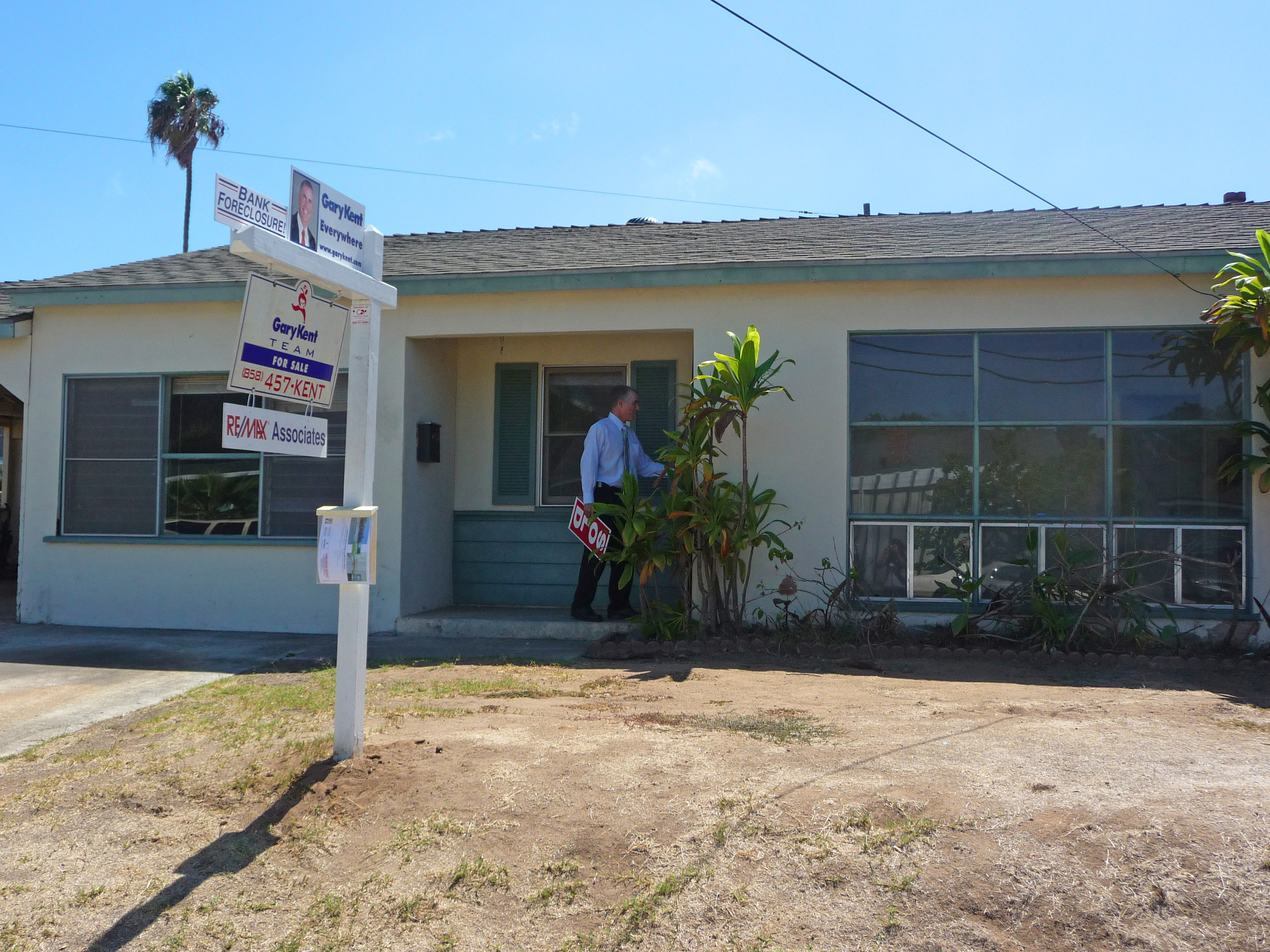 An example of a real estate owned property in San Diego, California.